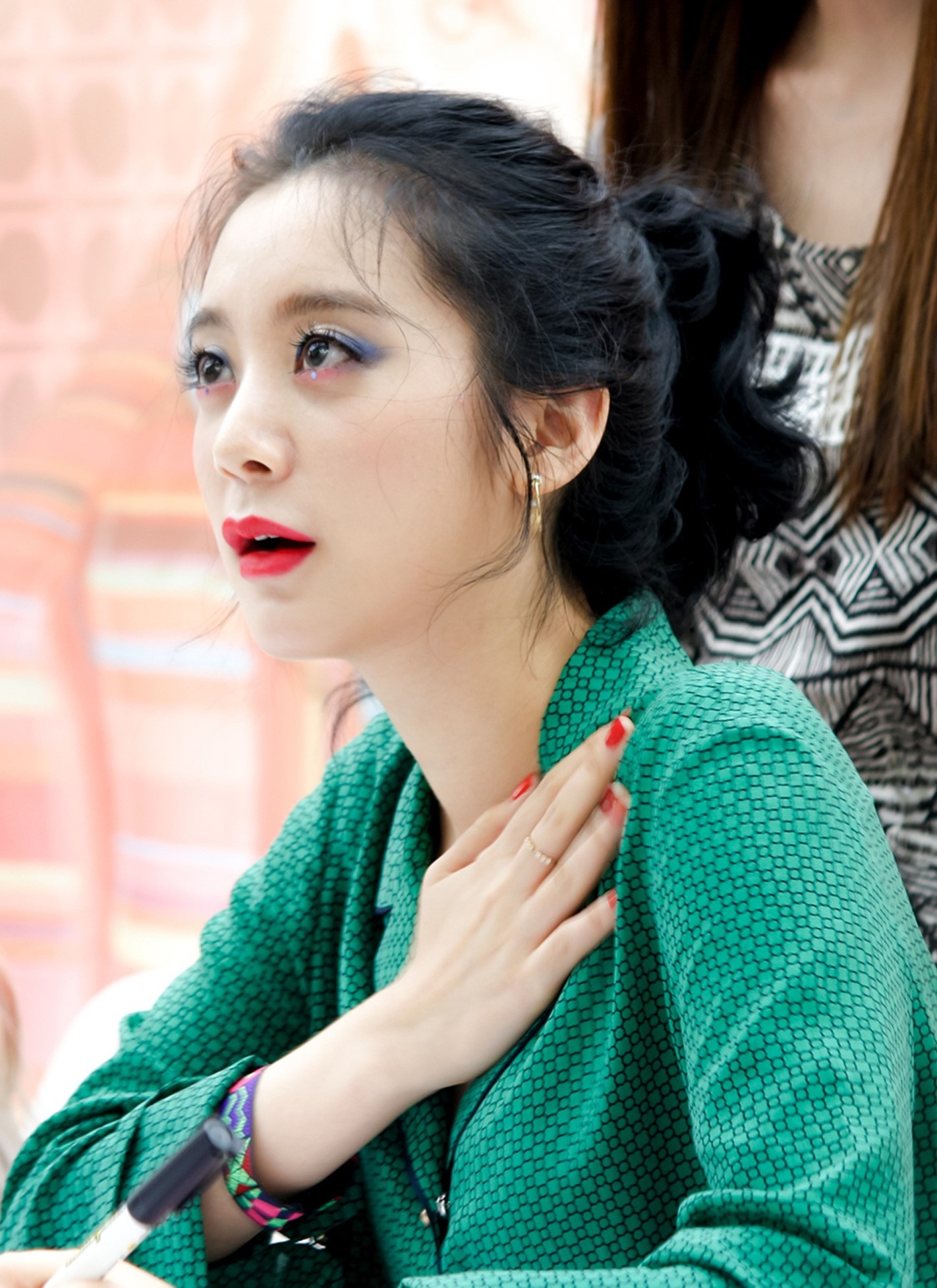 Woo Hye-rim at a fanmeet on July 15, 2016.